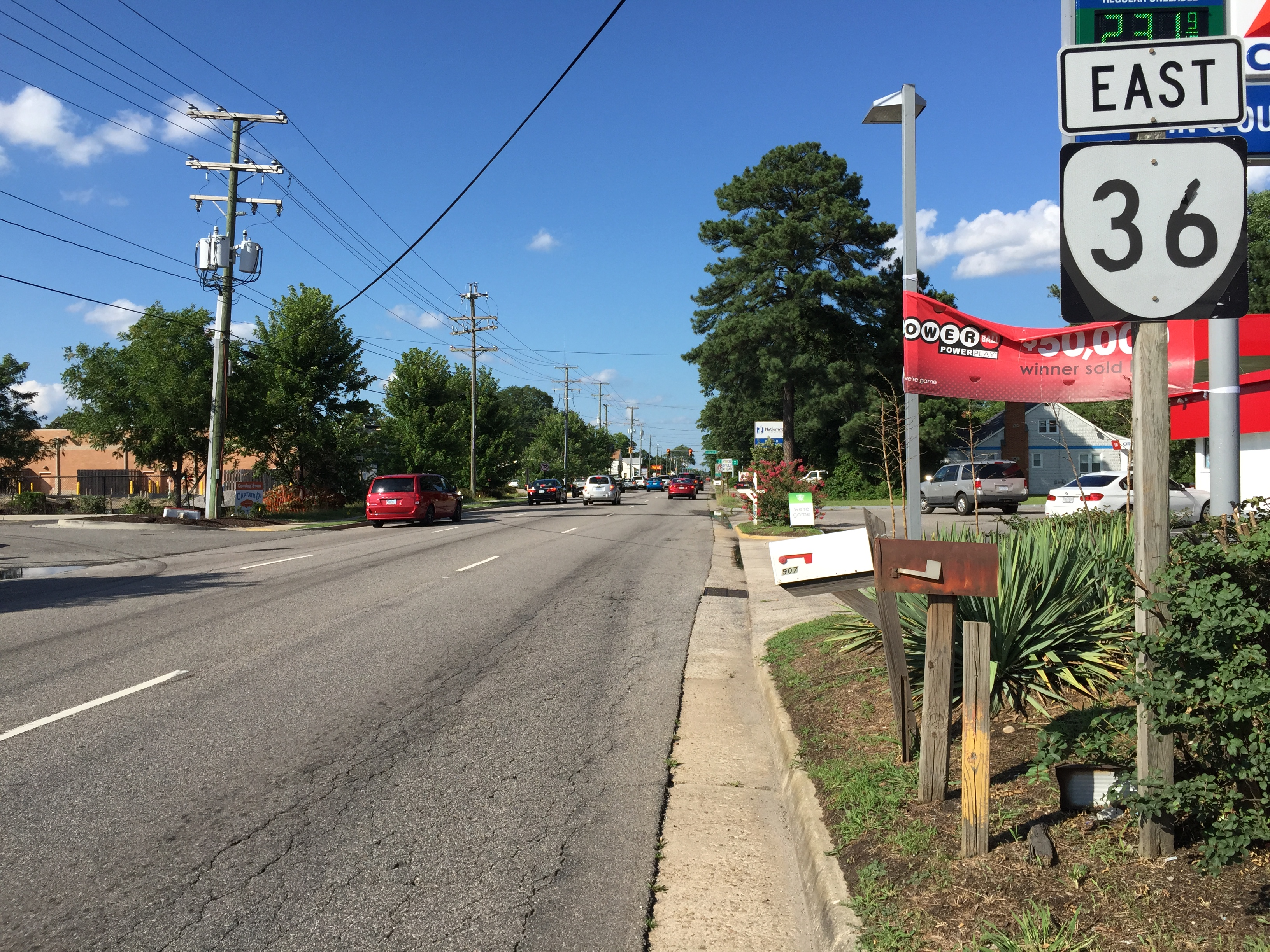 View east along Virginia State Route 36 (Oaklawn Boulevard) at Colonial Corner Drive in Hopewell, Virginia